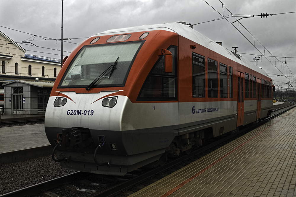 Polish built 620M-019 - Vilnius Central Station, Lithuania, 11/12/2015